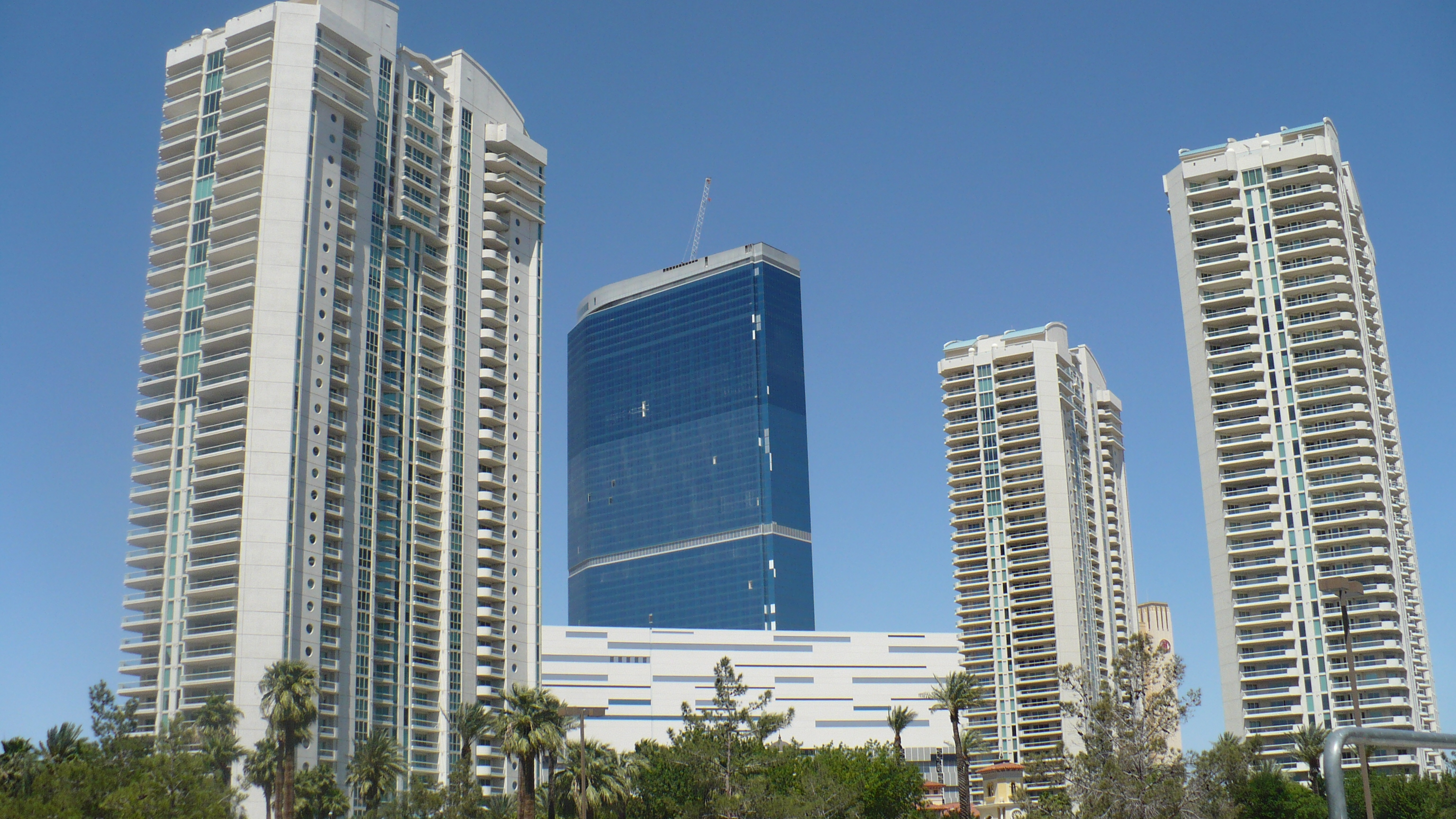 Turnberry Place in Paradise, Nevada, USA. The three white towers, not including the new blue tower